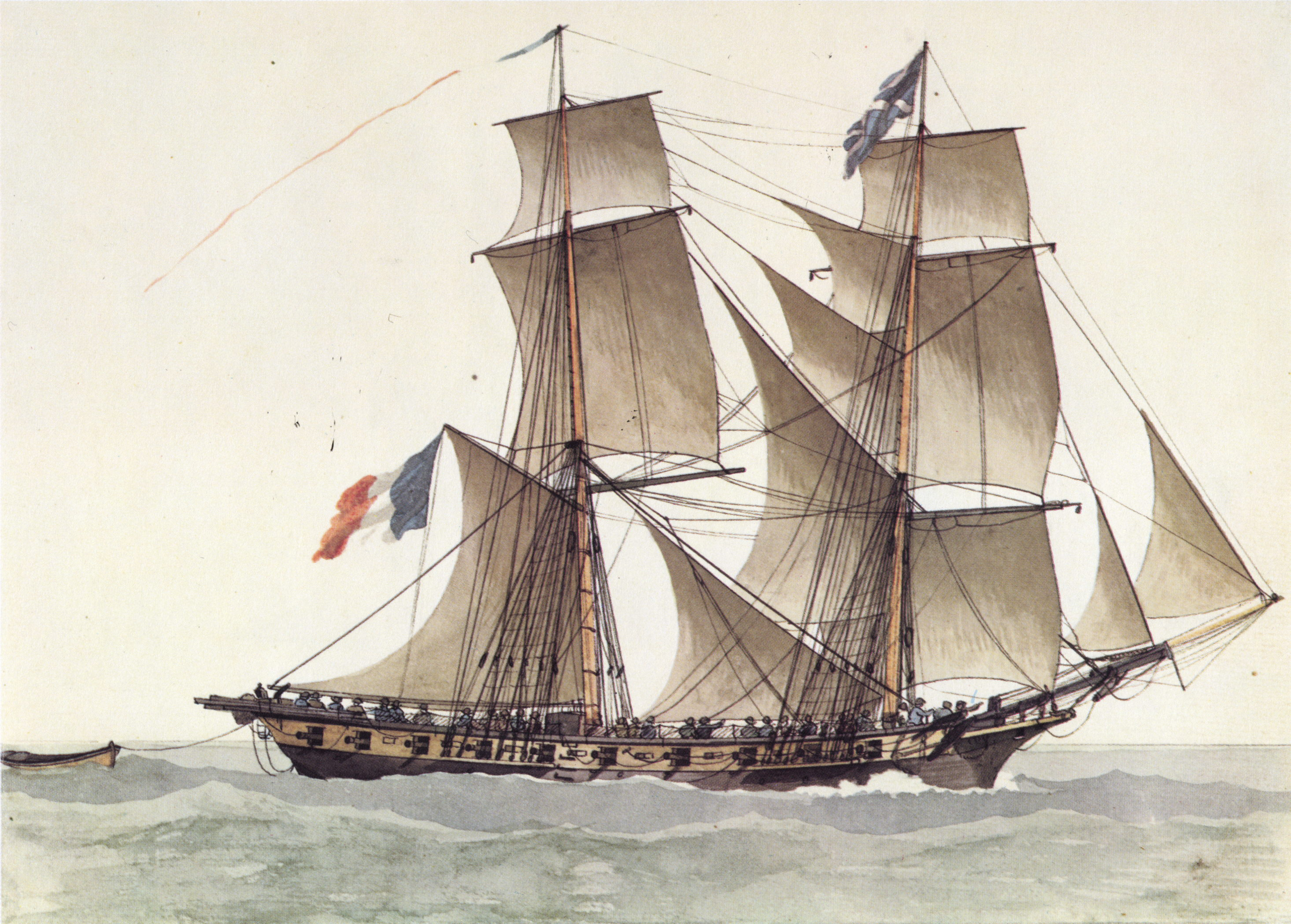 The Ligurienne